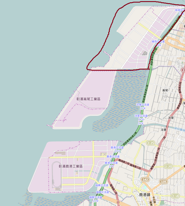 Changhua Coastal Industrial Park-Hsianhsi